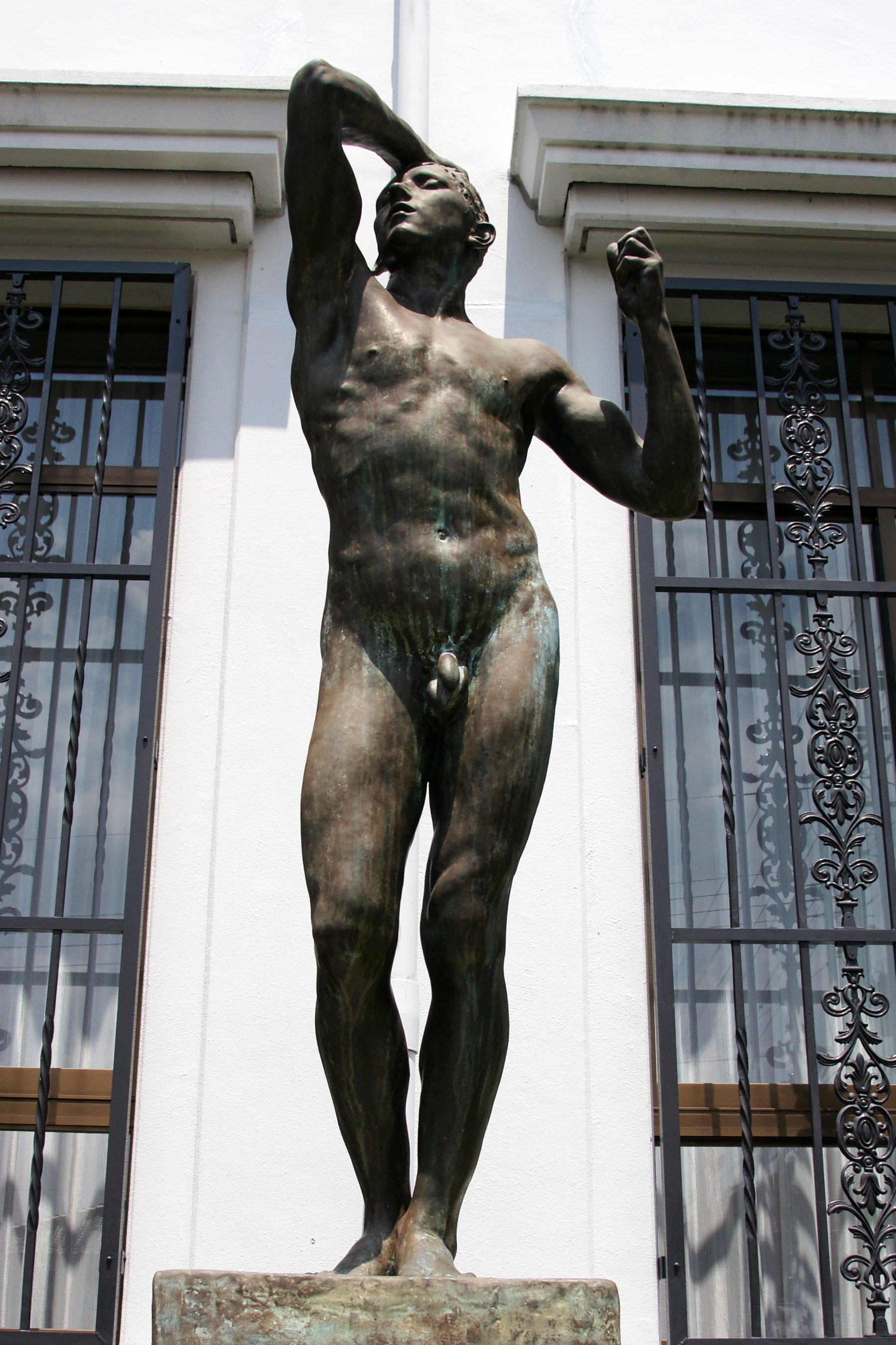 The Age of Bronze by Auguste Rodin on Tanyo Shinkin bank Hall (Tanyo Museum) in Kuchiganaya, Ikuno, Asago, Hyogo prefecture, Japan.